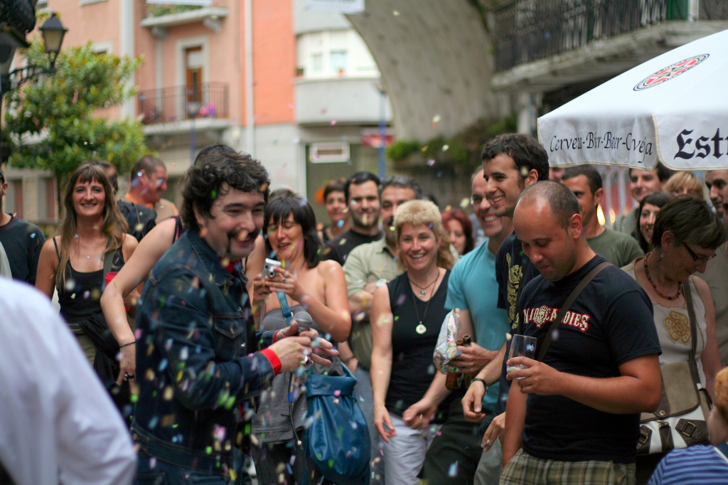 Celebration in Orereta, Basque Country.